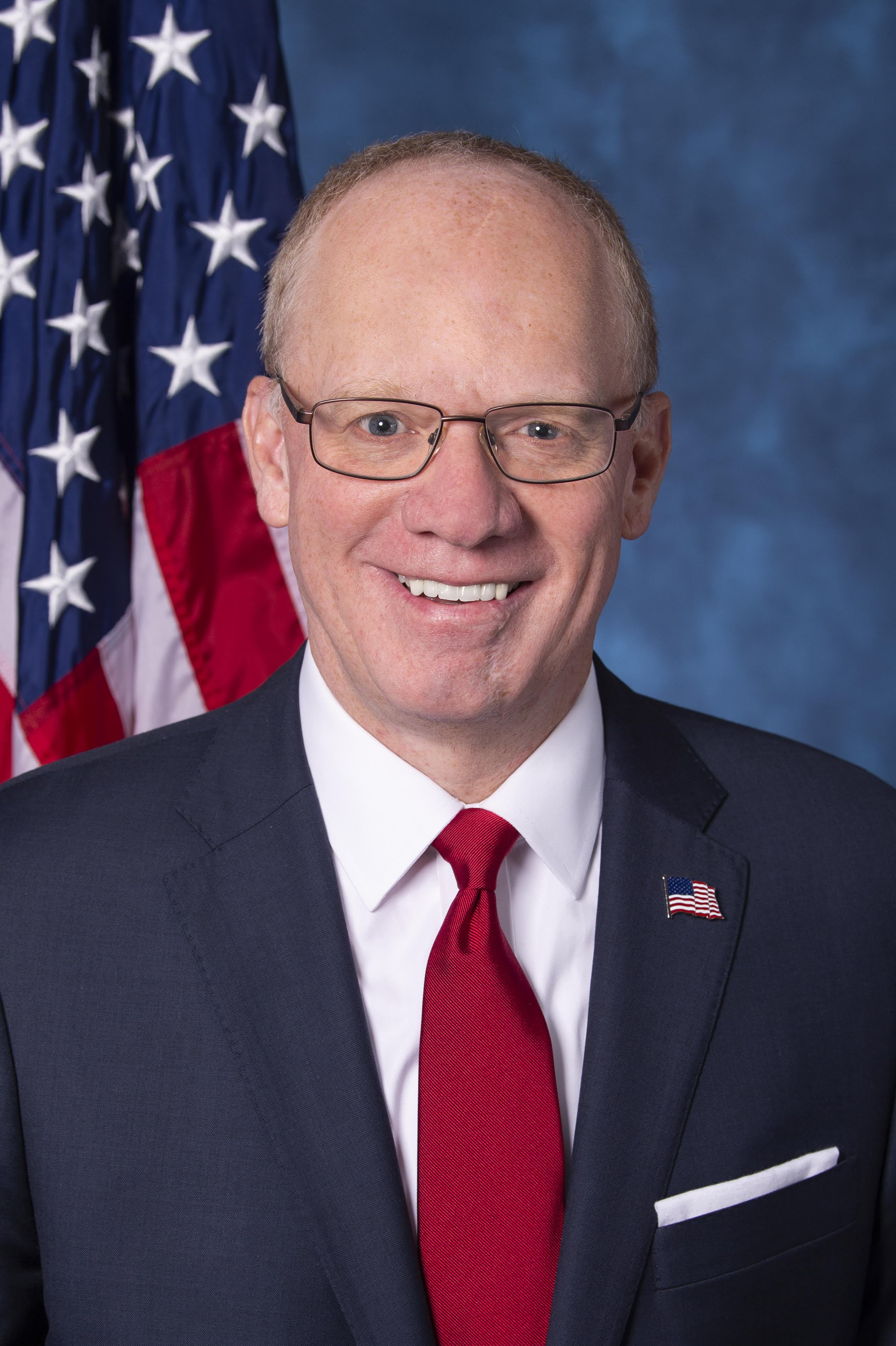 The official headshot of Rep. John Rose (R-TN)